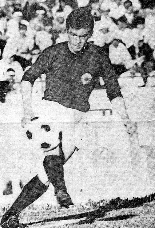 lija Petković (Serbian Cyrillic: Илија Петковић; born 22 September 1945), Serbian footballer and coach